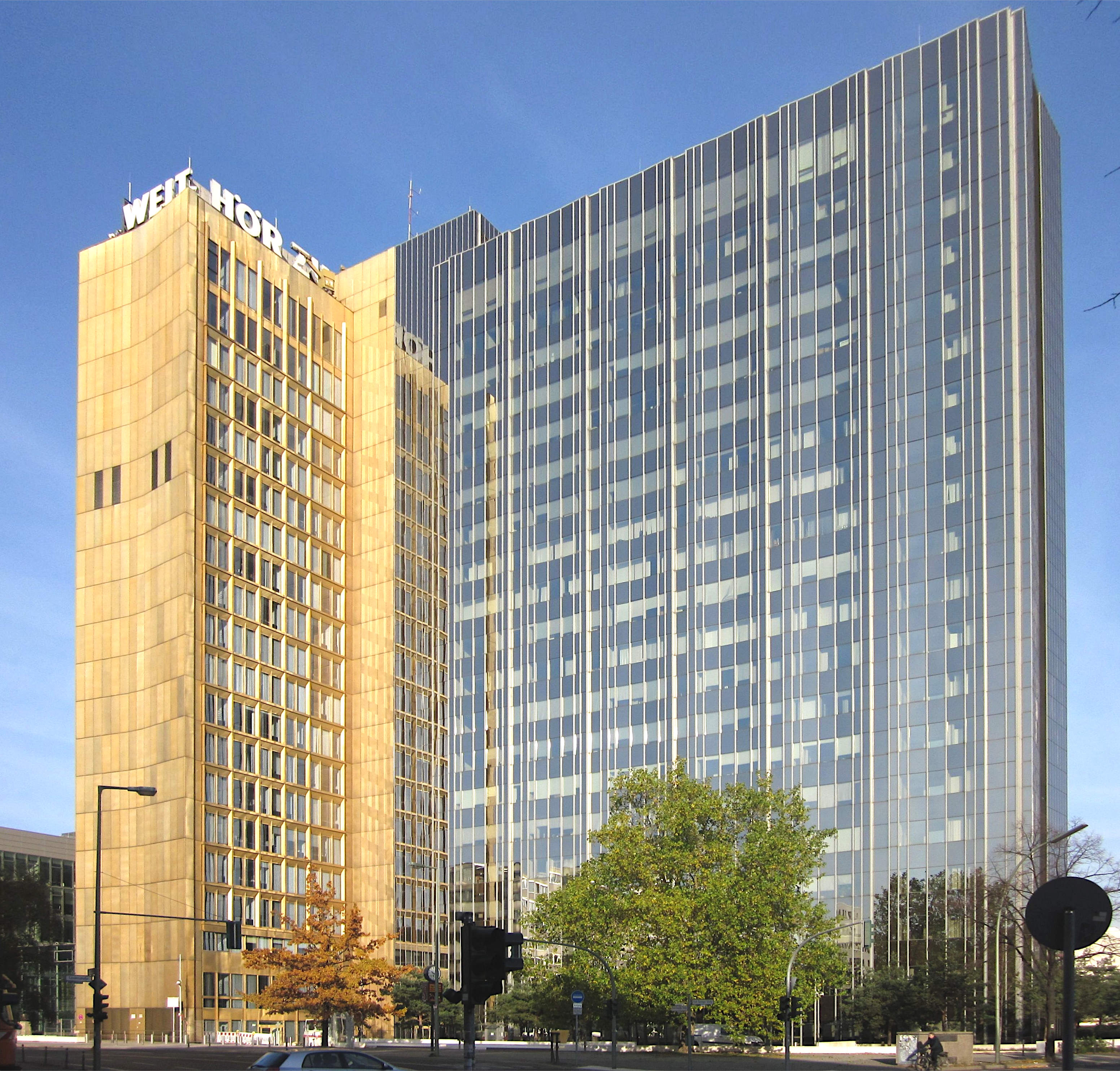 The Axel Springer Skyscraper at the corner of Rudi-Dutschke-Straße (left) and Axel-Springer-Straße in Berlin-Kreuzberg. The older part (on the left) was built from 1960 to 1966, the annex dates from 1992 to 1994. The older part of the building has been dedicated as a historic landmark.